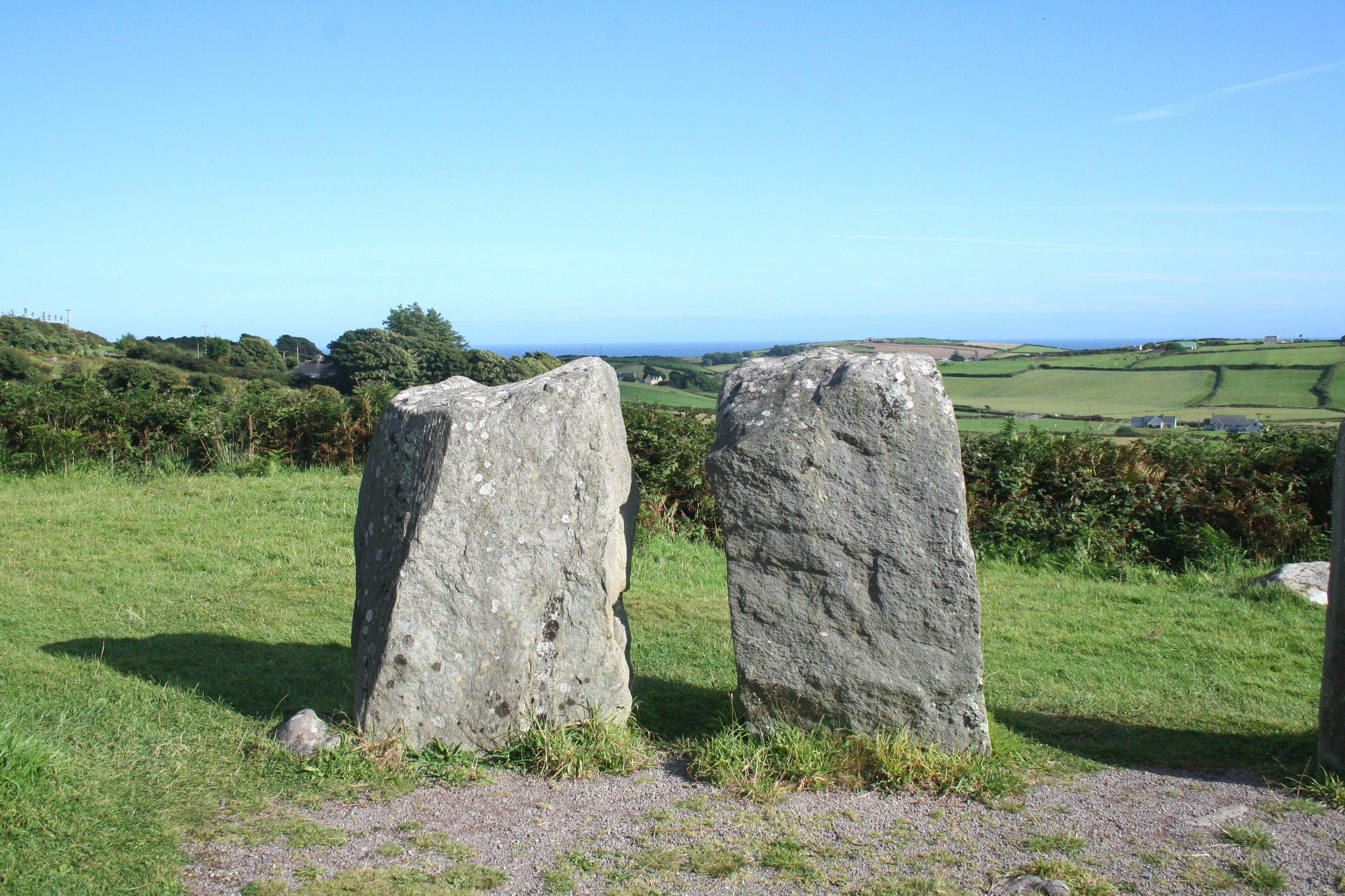 Drombeg Stone Circle / Portal Stones